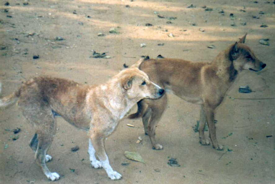 Santal Hound